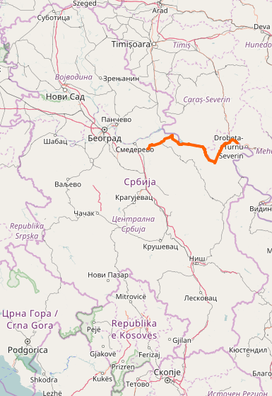 OpenStreetMap of State Road 34 in Serbia.